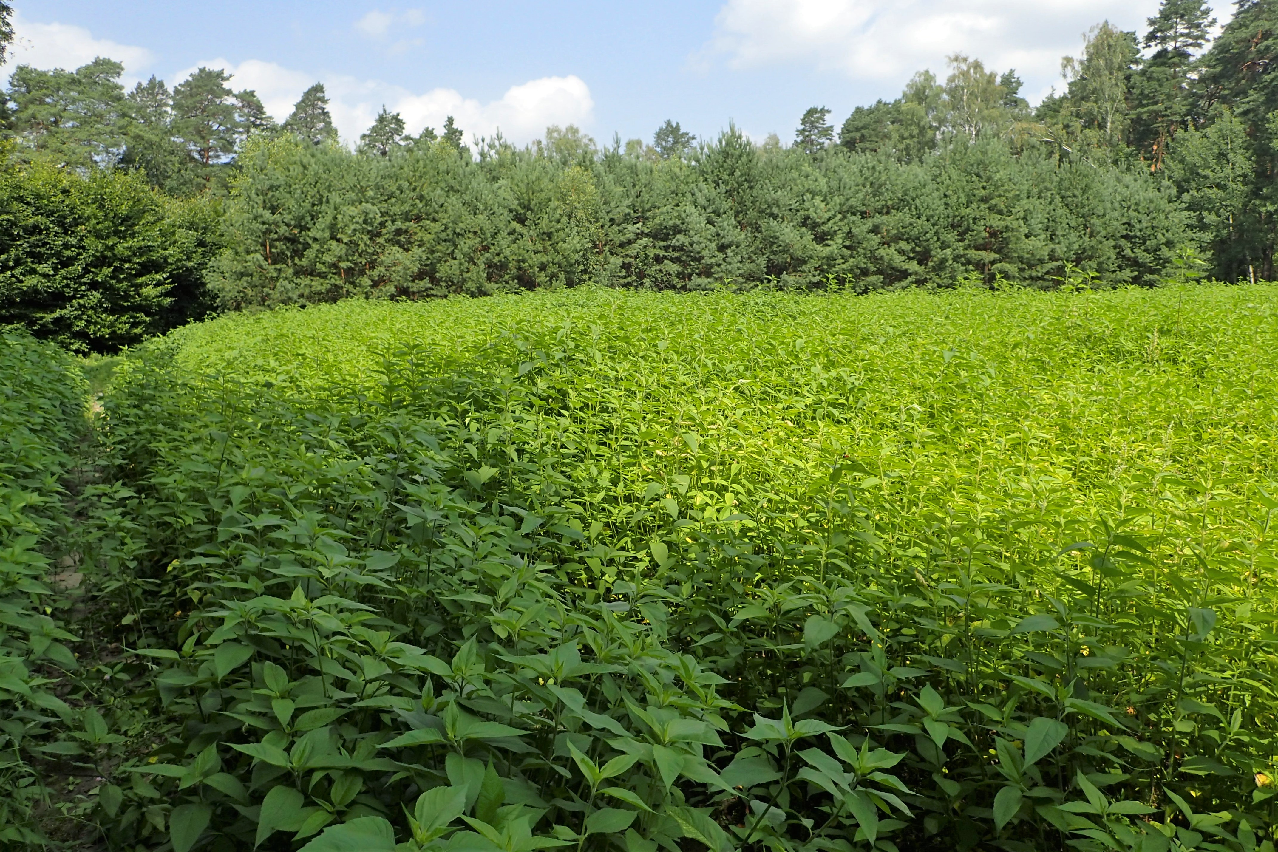 Helianthus tuberosus on food plot. Vicinity of Szlachta, N Poland